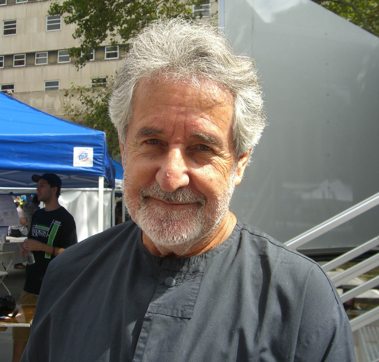 Writer Breyten Breytenbach at the 2009 Brooklyn Book Festival.